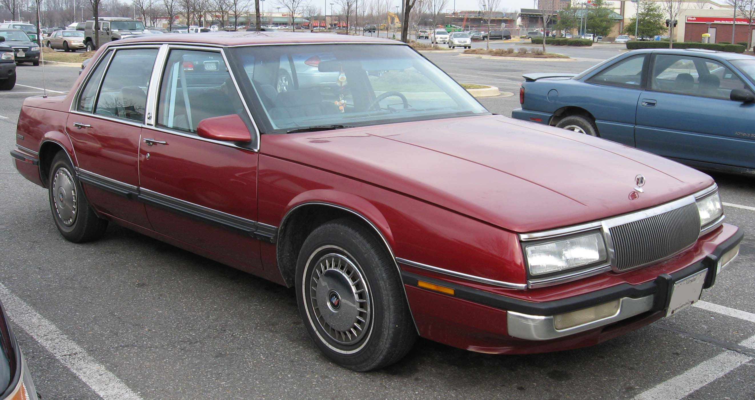 1990-1991 Buick LeSabre photographed in USA.